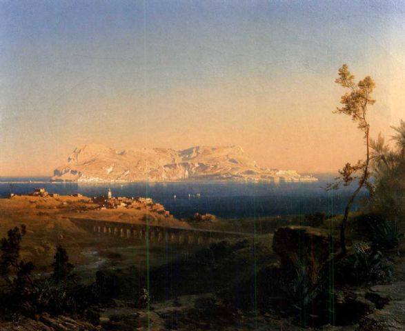 Fritz Bamberger, Painting: Gibraltar